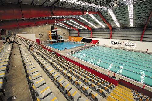 CDUCUCEI